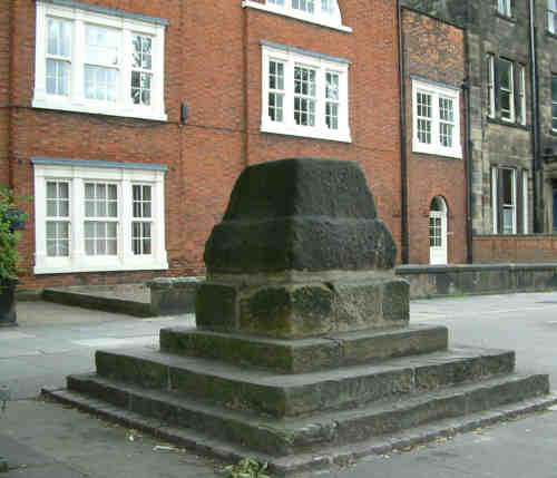 Headles Cross or Plague Stone at Friargate Derby